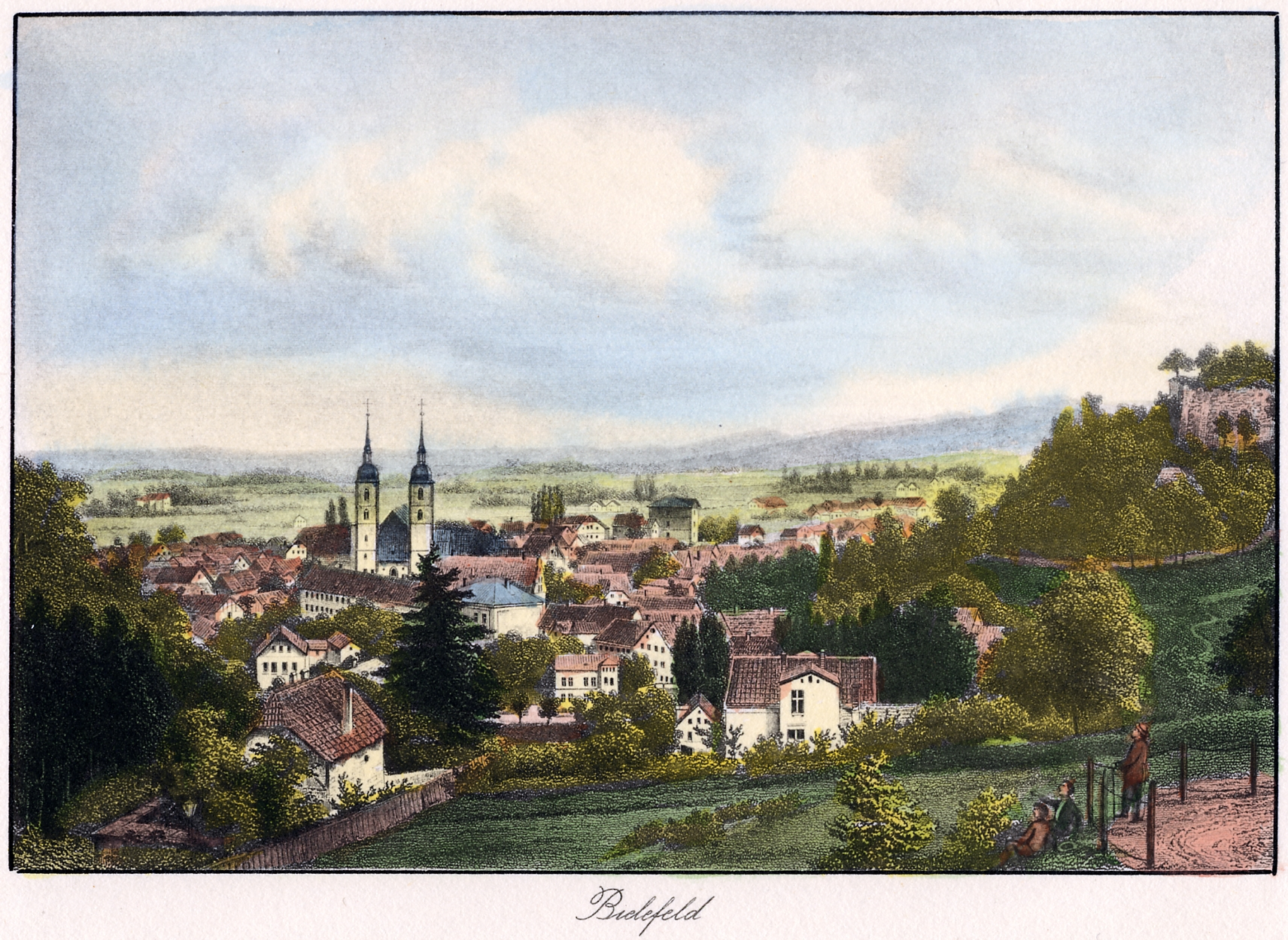 View form mount Johannisberg in Bielefeld upon the "Neustadt" (part of the city) and a fortification of Sparrenburg castle mid 19th century